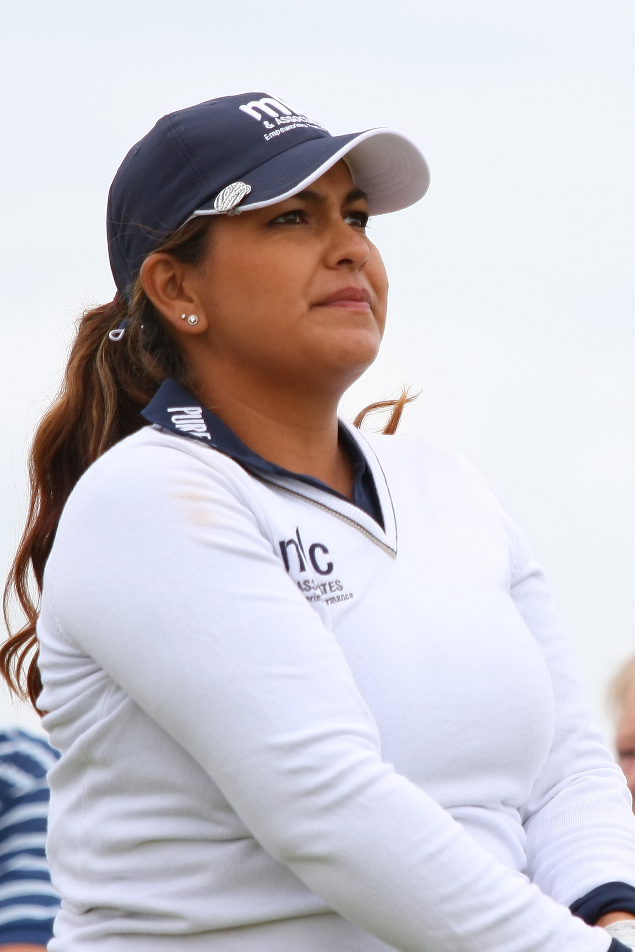 ST ANDREWS, SCOTLAND – JULY 31: Lizette Salas of the United States watches her tee shot on 15th hole during final practice round of 2013 Ricoh Women's British Open held at St Andrews Old Course on July 31, 2013 in St Andrews, Scotland. (Photo by Wojciech Migda)